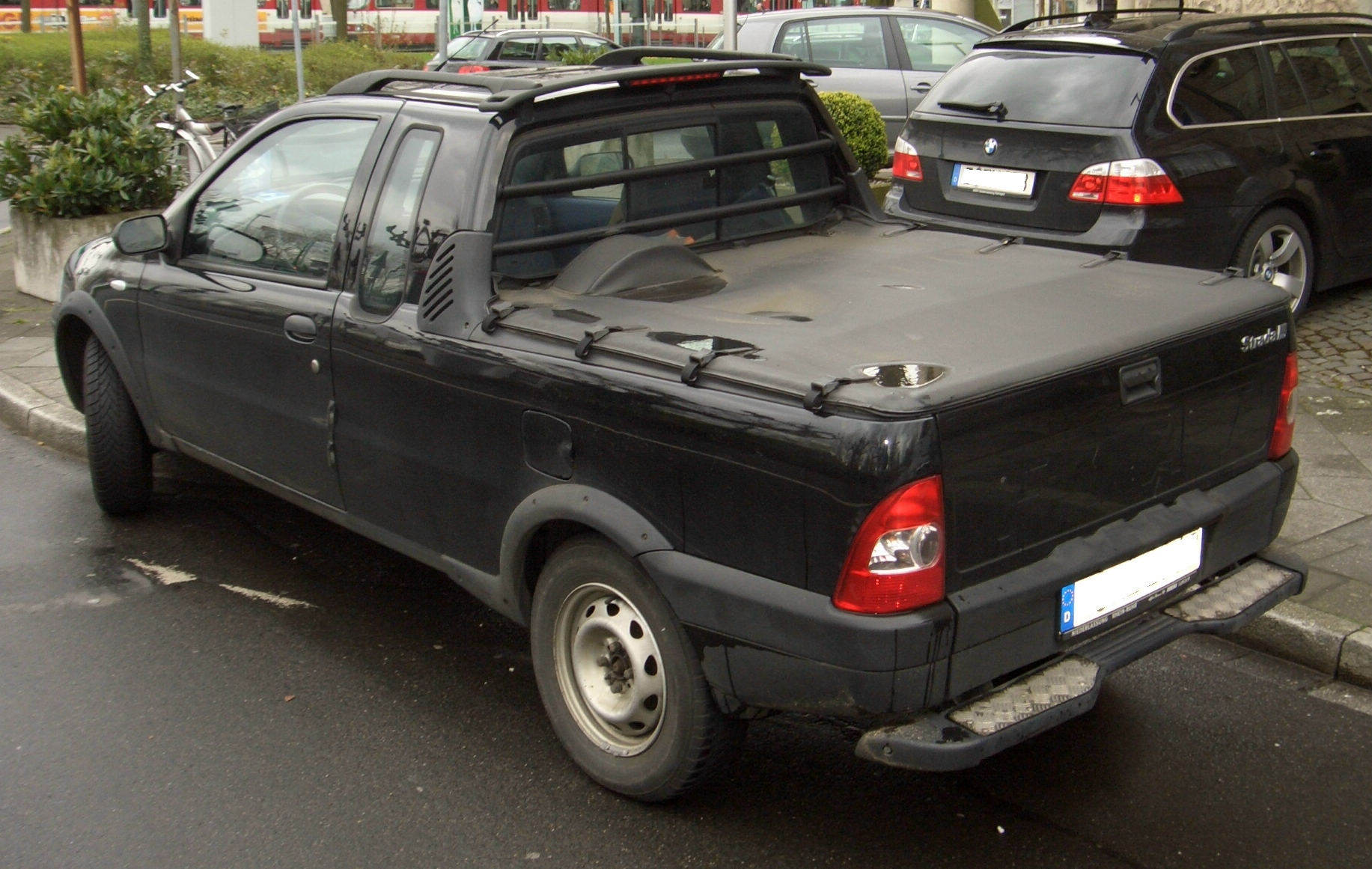 Fiat Strada JTD Pickup (Basis Fiat Palio, 2G 2001-2004), seen in Duesseldorf, Germany.